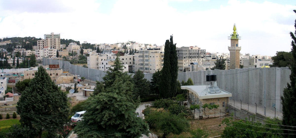 The wall at Abu Dis, eastern suburb of Jerusalem.